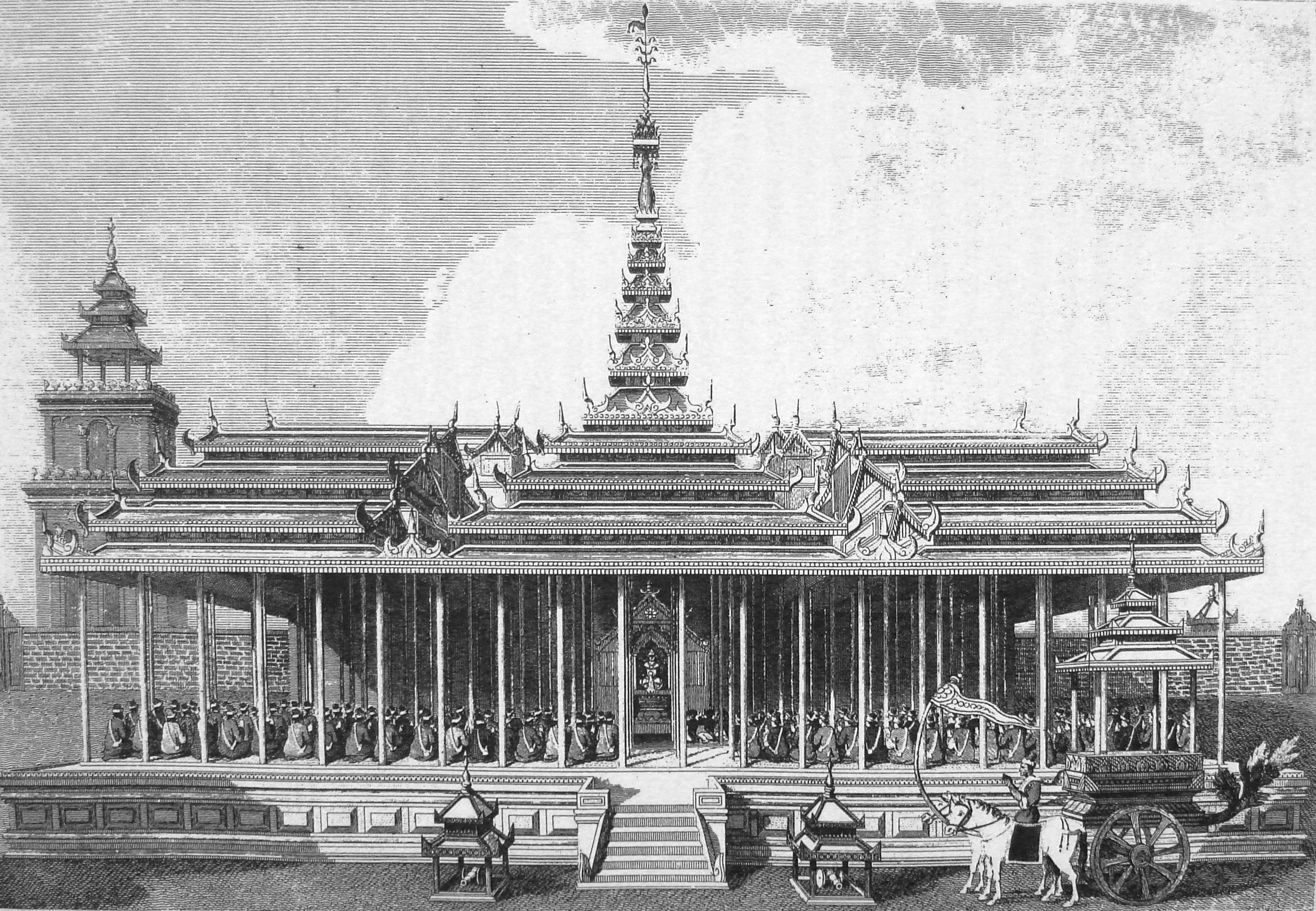 View of the Imperial Court at Amarapura (Ummerapoora), and the Ceremony of Introduction.